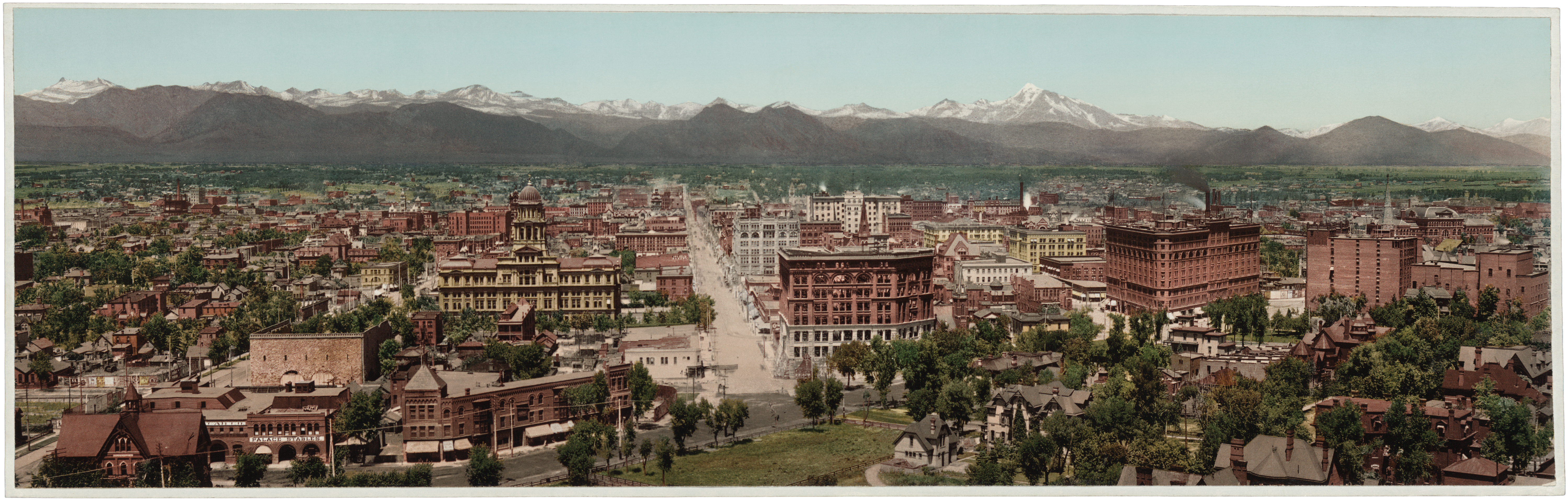 Denver, Colorado, circa 1898. View from the top of the Colorado State Capitol, facing northwest looking down 16th St. The intersection of 16th and Broadway is in the foreground. The domed building on the left side is the Arapahoe County Courthouse, demolished in 1933. The Brown Palace Hotel is visible on the right side. (description from File:Denver Colorado 1898 LOC 09570u.jpg by User:Balcer~commonswiki)